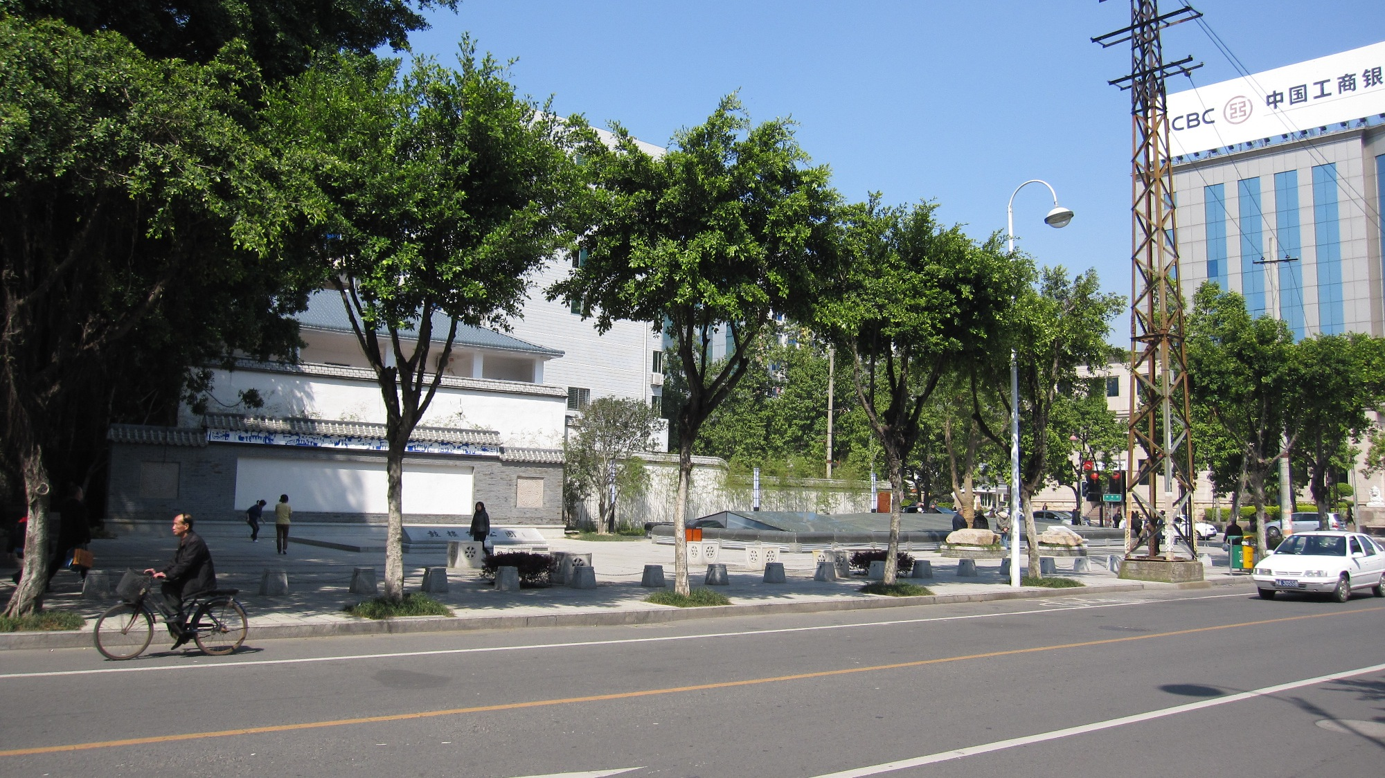 Drum Tower Front Park, Fuzhou